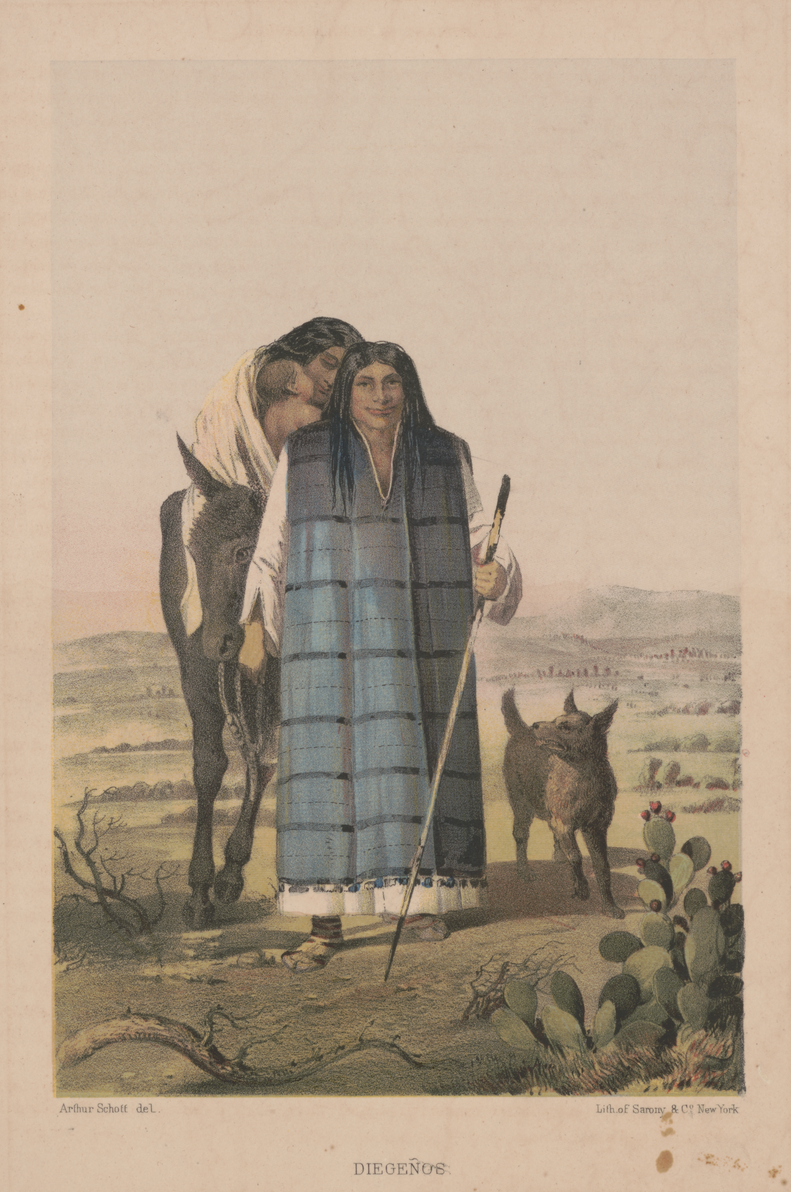 Illustration: Arthur Schott, Sorony & Co. (Napoleon Sarony) NY 1857, digitalized by Kosi Gramatikoff